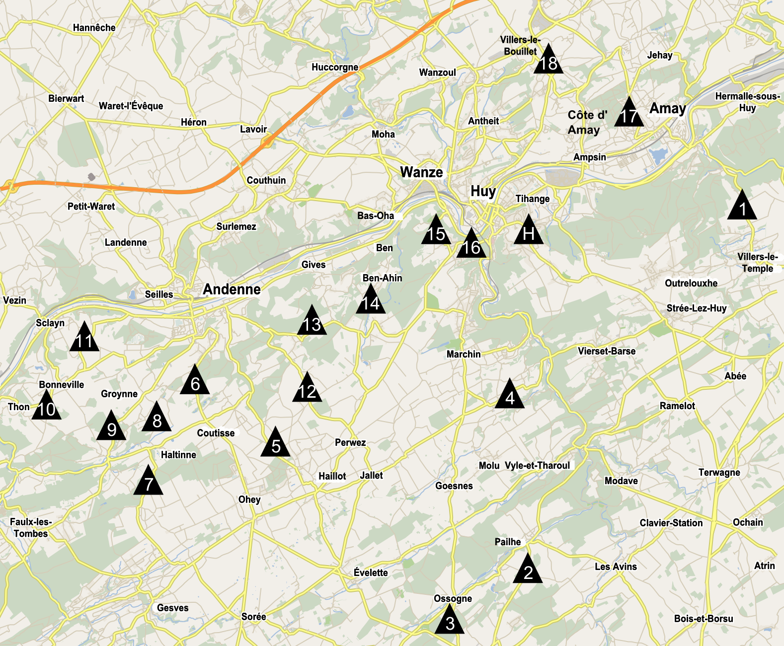 Overview of all hills of the Flèche wallonne féminine over the years.